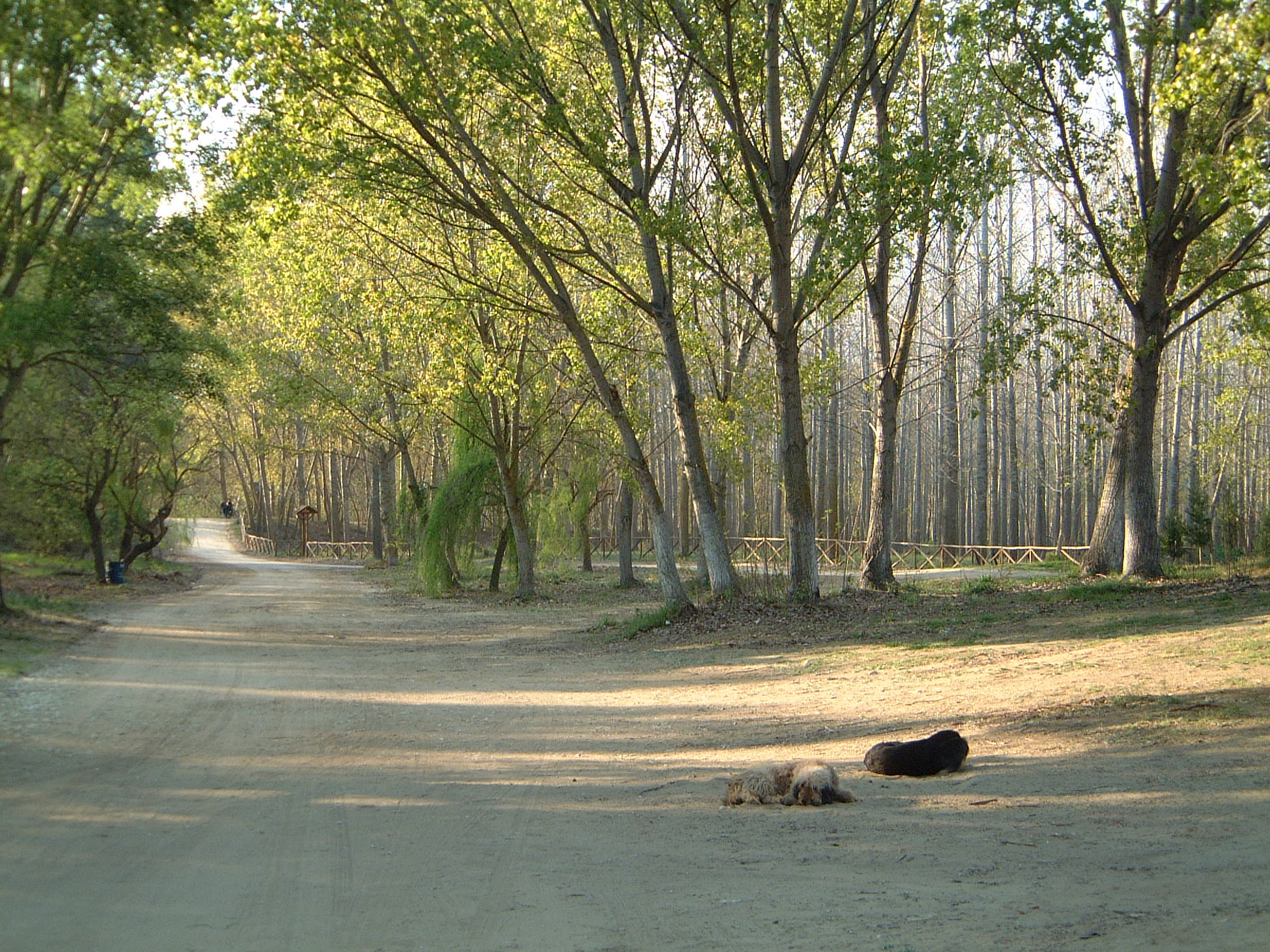 Nestos riverside forest at cafe nestos, Chrysoupolis, Greece